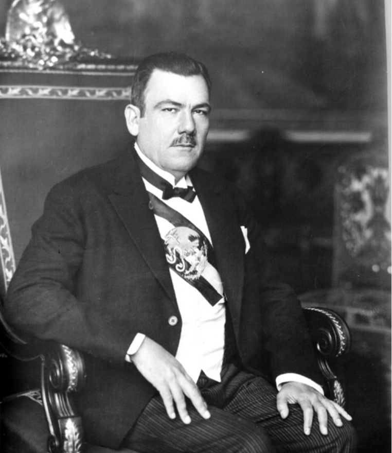 Portrait of the President of the Republic, Plutarco Elías Calles